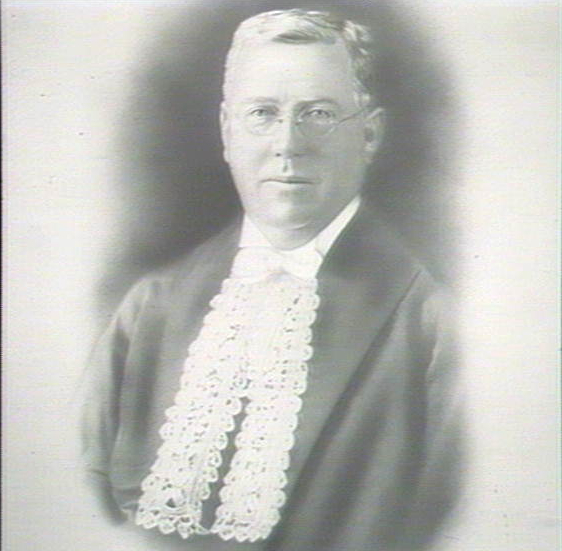 photograph of James Dooley, Premier of New South Wales.